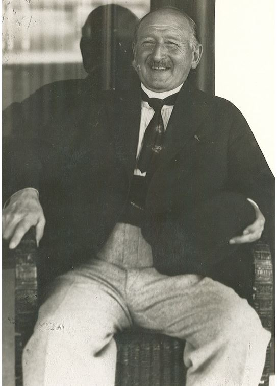 Norwegian chemist, pharmacist and eugenist Jon Alfred Mjøen (1860–1939) pictured in the 1930s